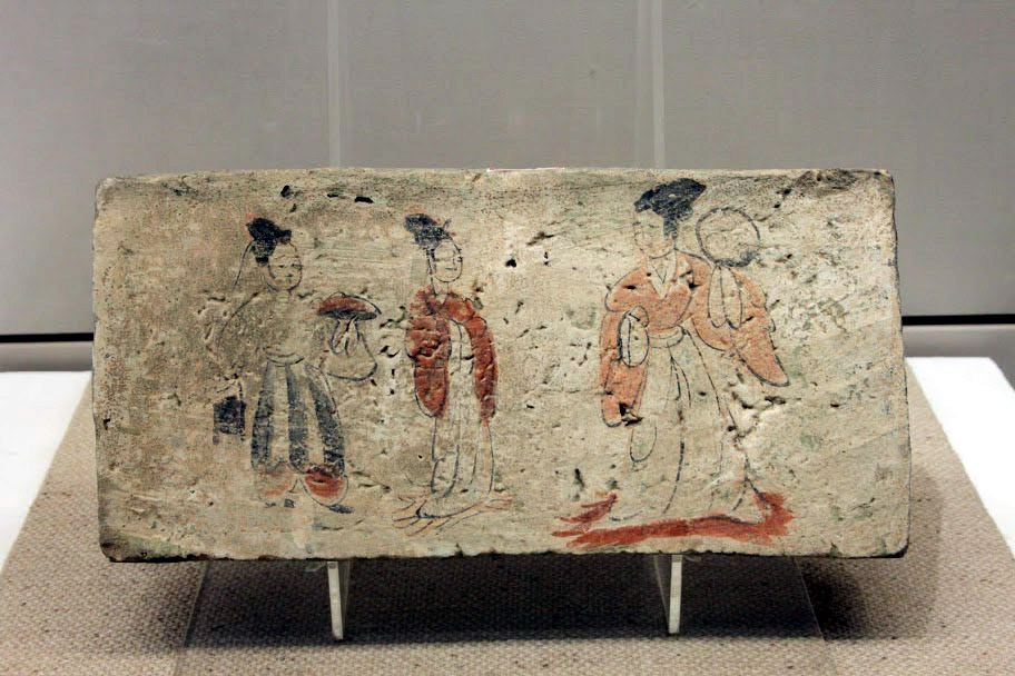 A Chinese Three Kingdoms (220-280 AD) decorated brick taken from the wall of an underground tomb, depicting people in a domestic scene.